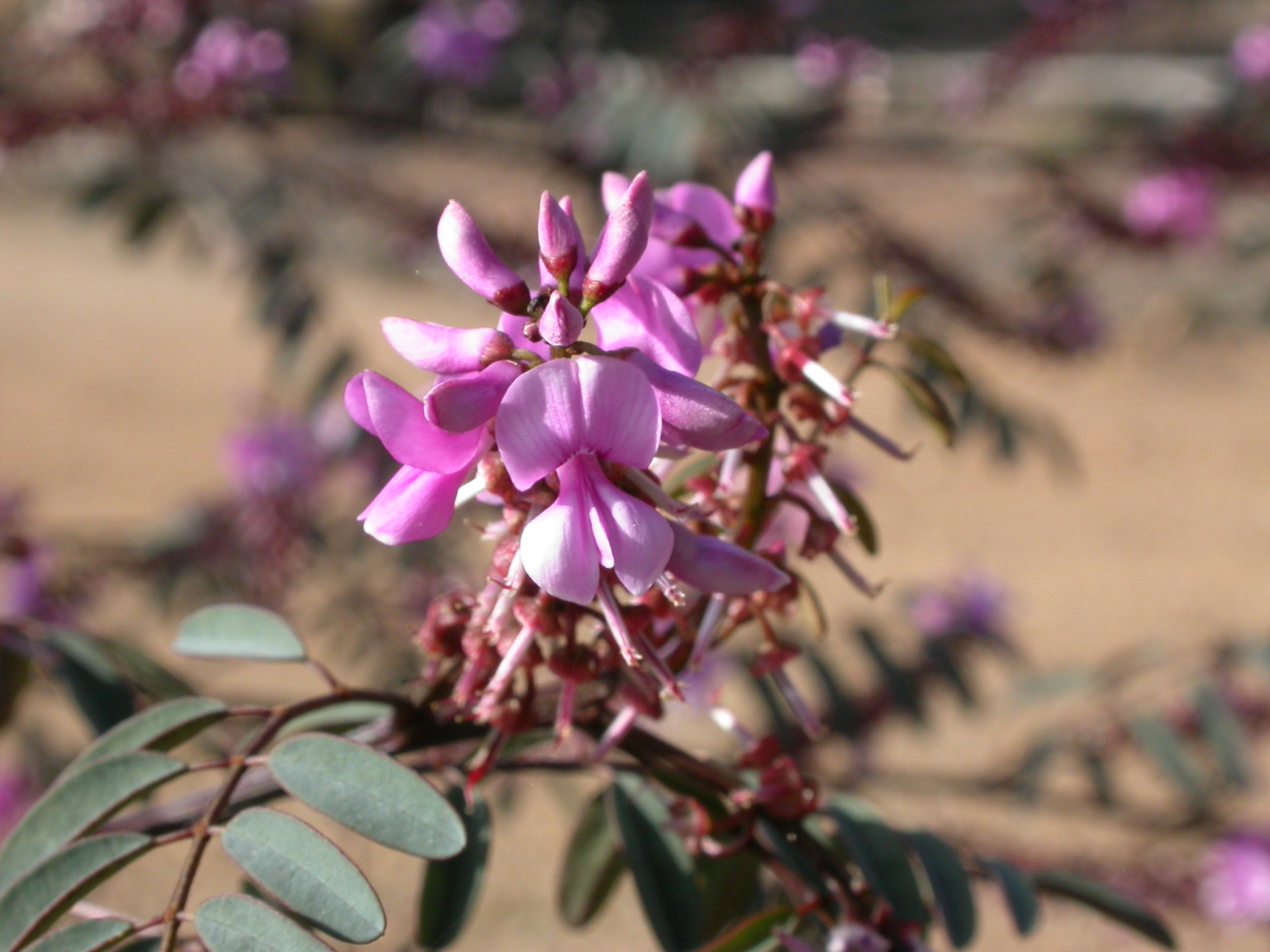 Indigofera australis, Black Mountain, Canberra, ACT, Australia